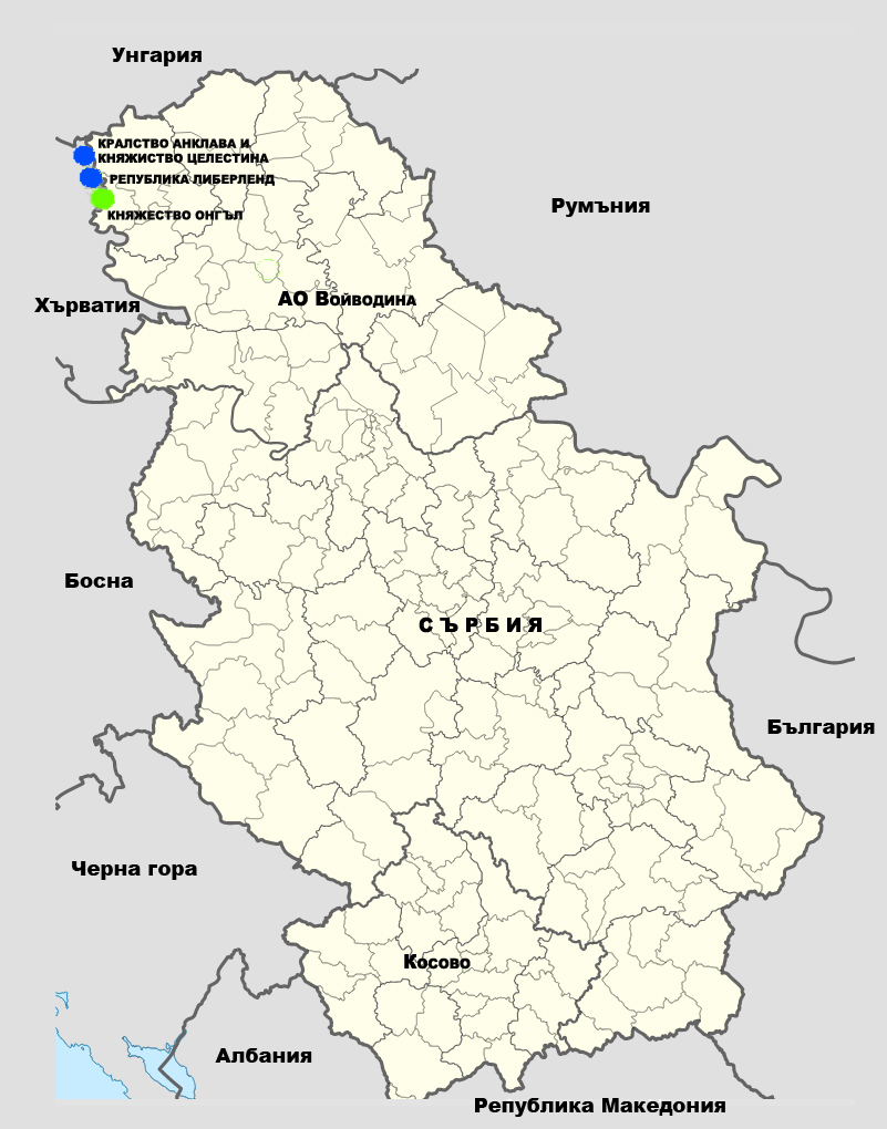 Princpality of Ongal map